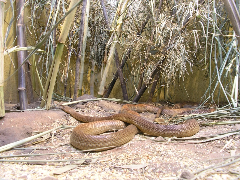 Oxyuranus microlepidotus Taipan - Healesville sanctuary